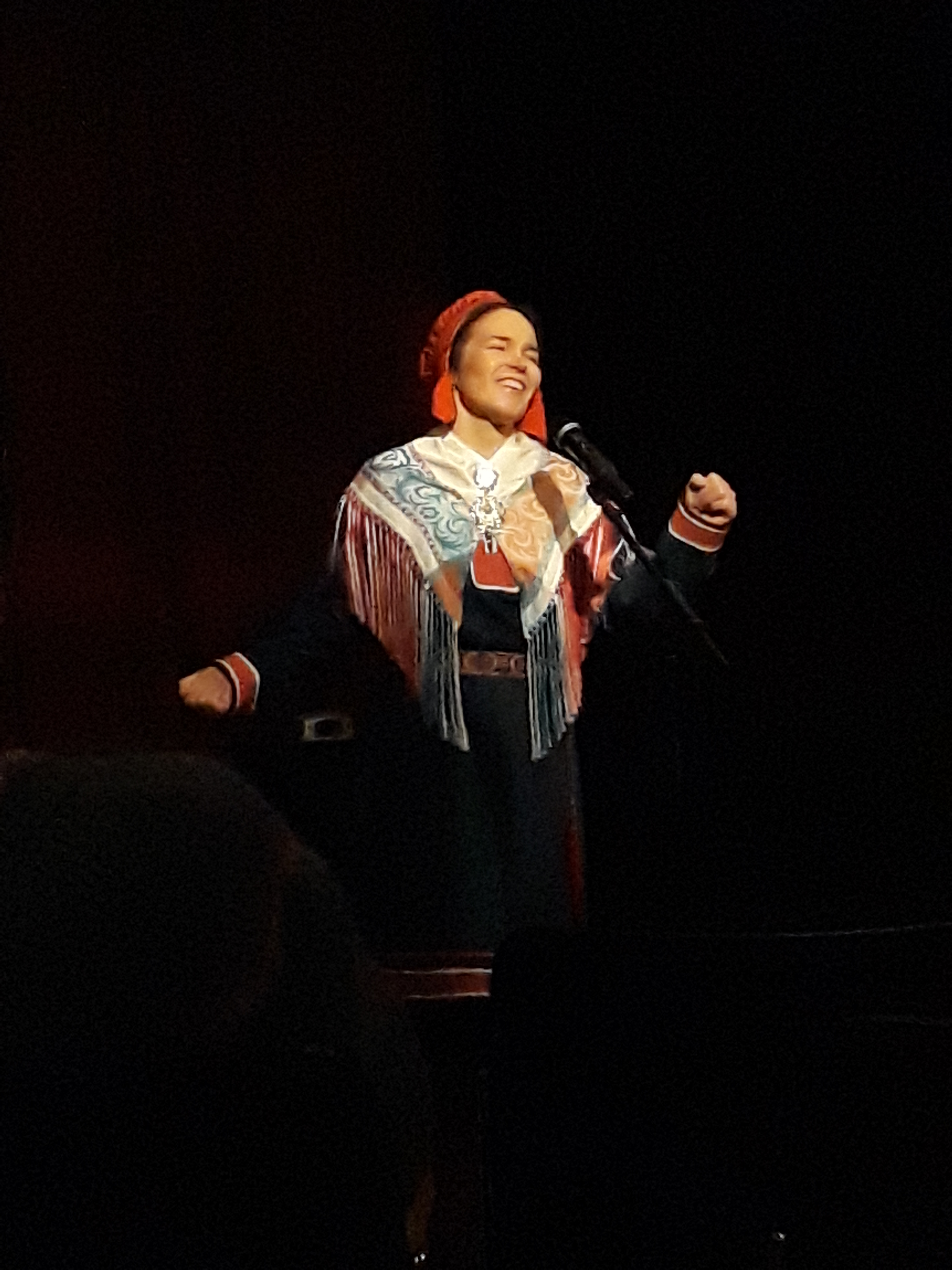 Anna Morottaja performing a livđe at her concert in Helsinki, Finland